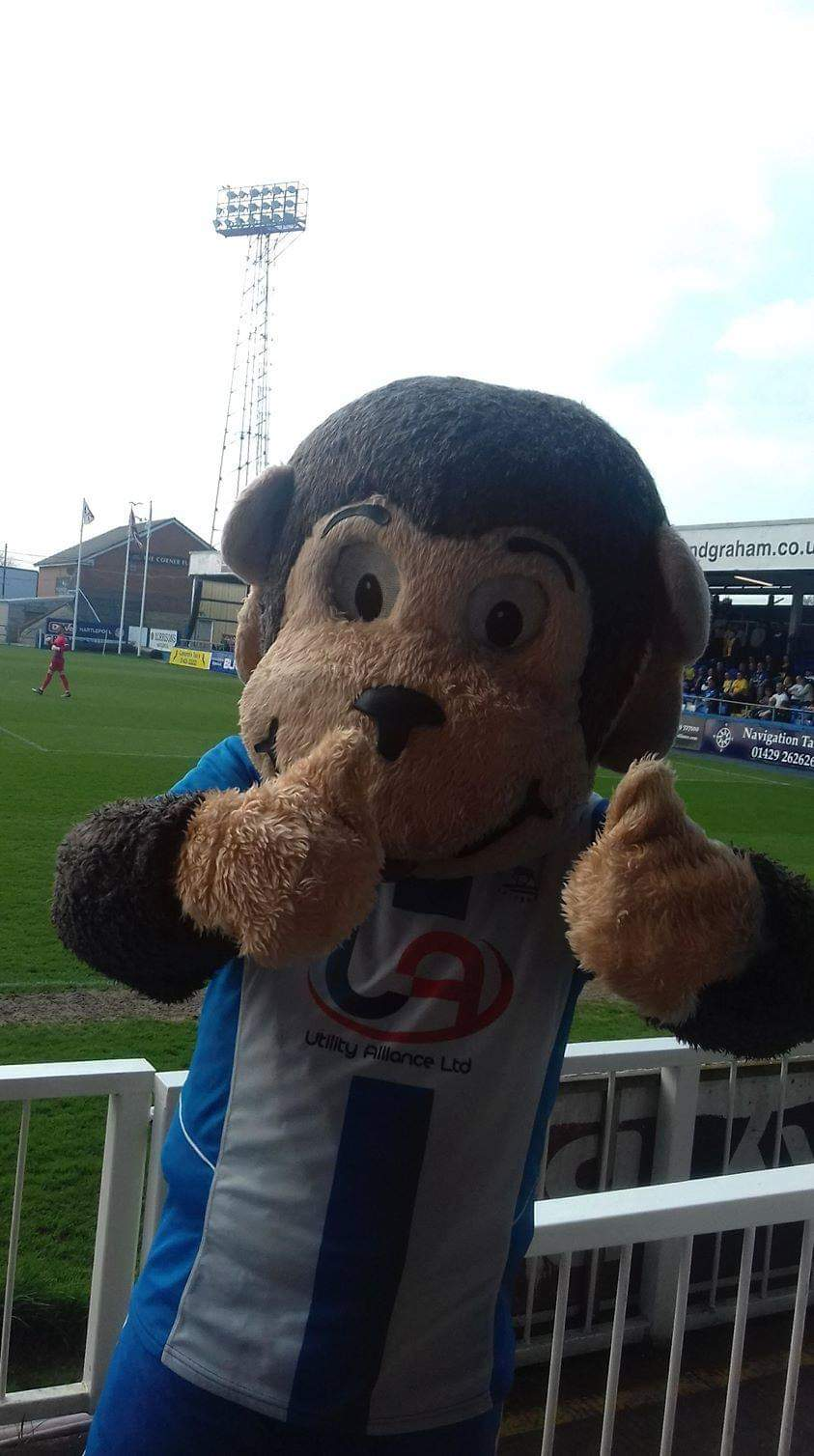 Taken in April 2018 in the family Enclosure at Victoria Park in a match against Torquay United.